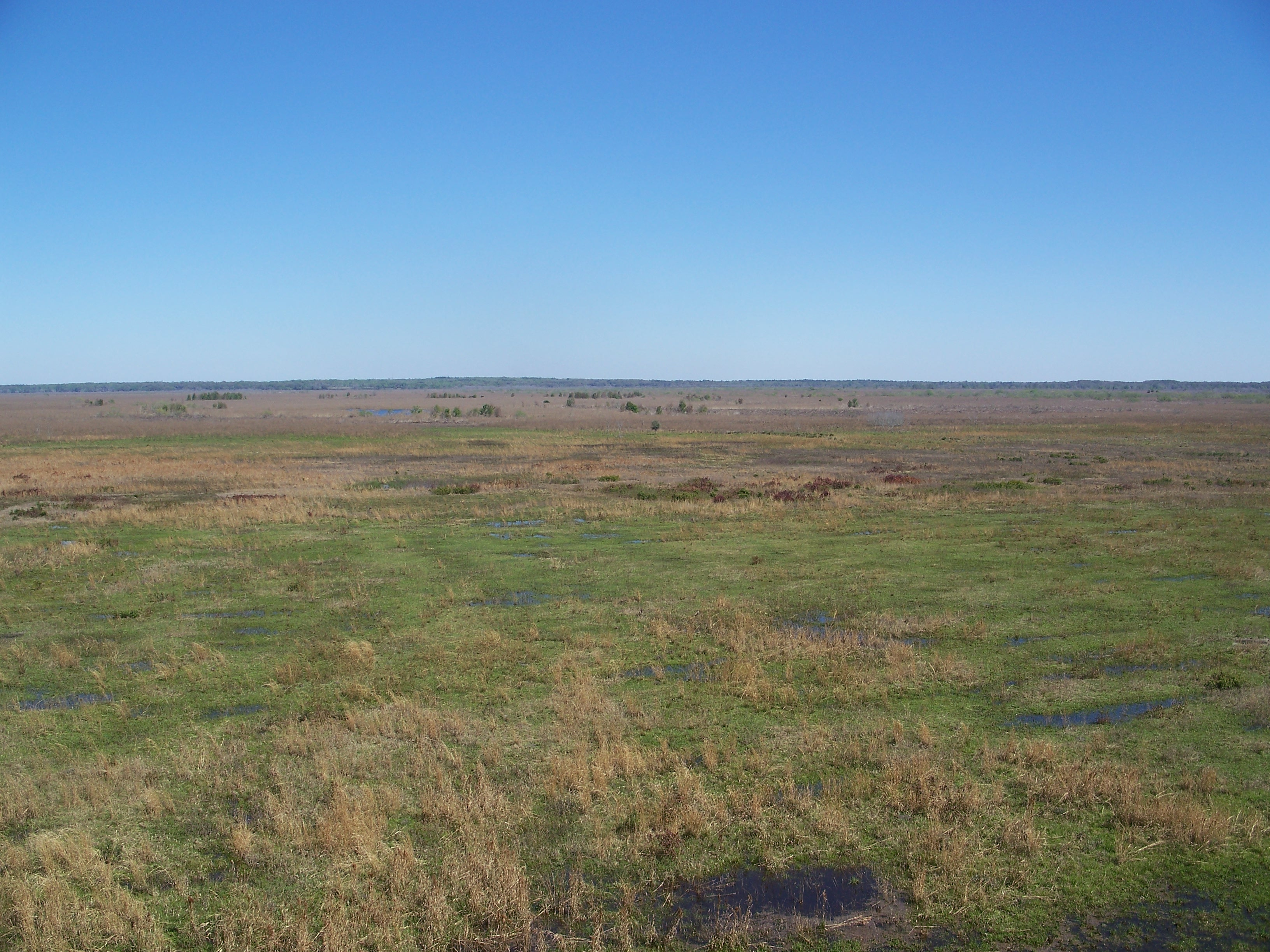 View of Paynes Prairie from the top of the observation tower.